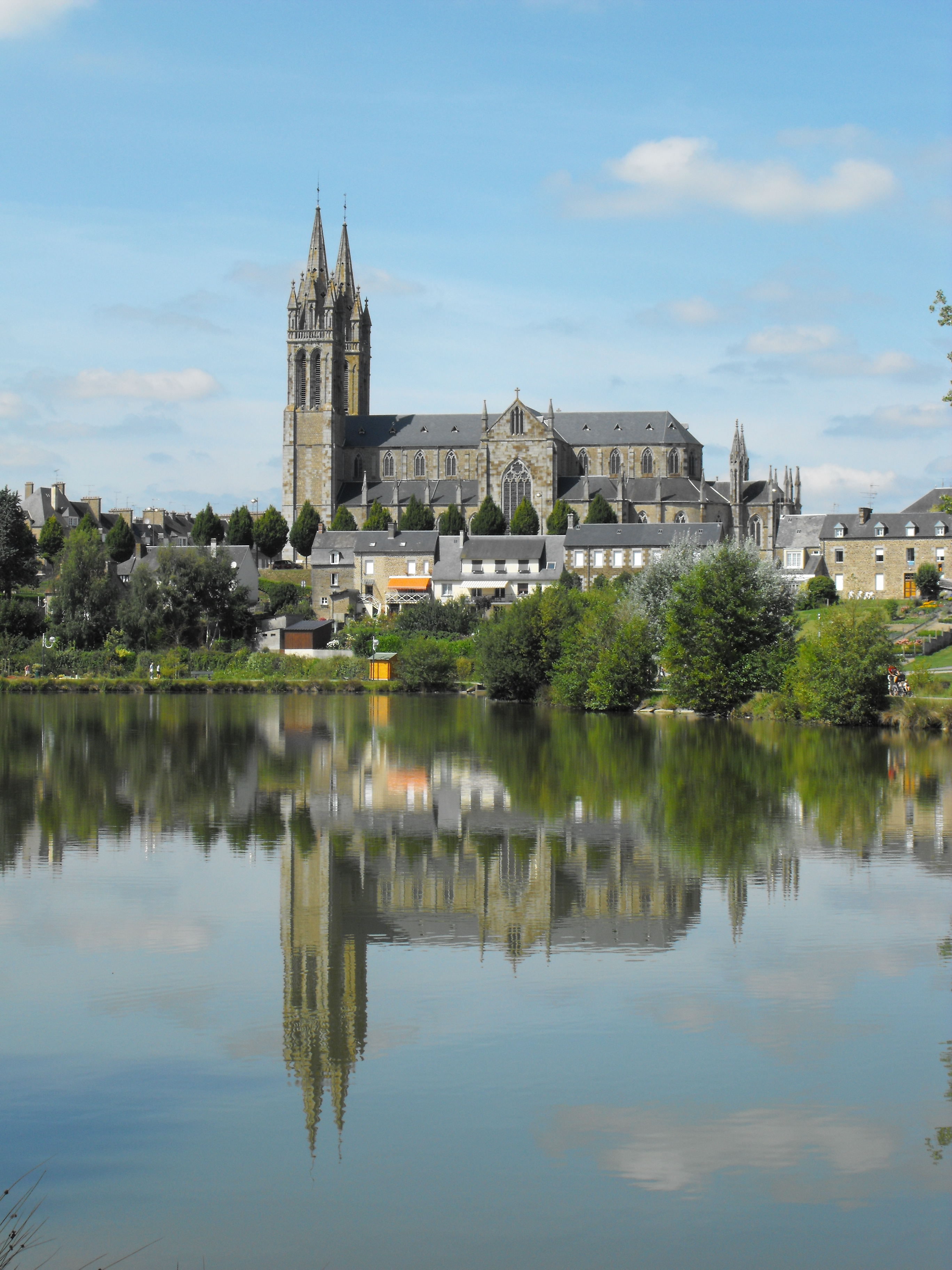 Saint-Hilaire-du-Harcouet Church